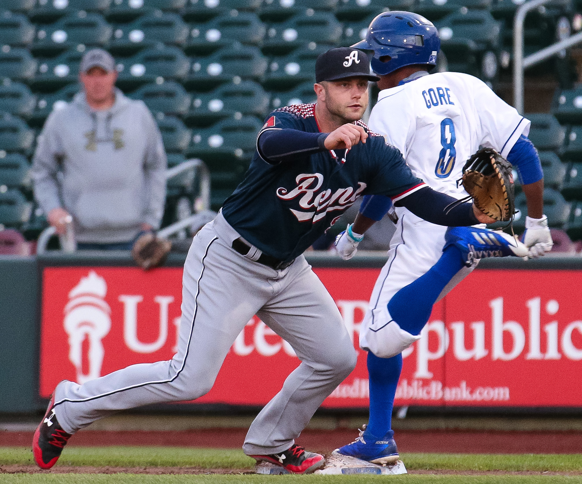 Christian Walker of the Reno Aces (left) lunges to catch a ball as Terrance Gore of the Omaha Storm Chasers reaches base safely during a 2017 game at Werner Park in Omaha.